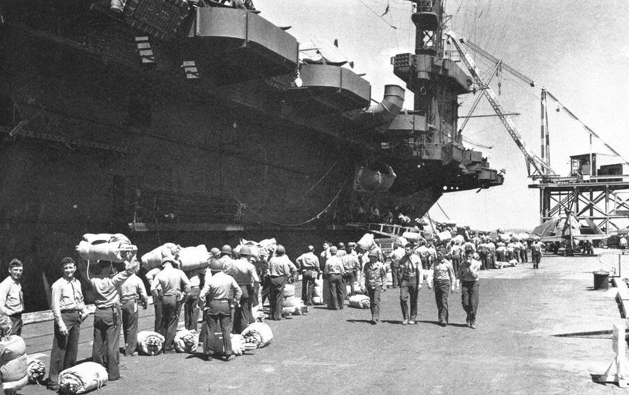 View of passengers waiting to board the U.S. Navy escort carrier USS Hollandia (CVE-97), in July 1944. Hollandia sailed on 10 July 1944 from San Diego, Califronia (USA), for a shakedown cruise to Espiritu Santo, New Hebrides.